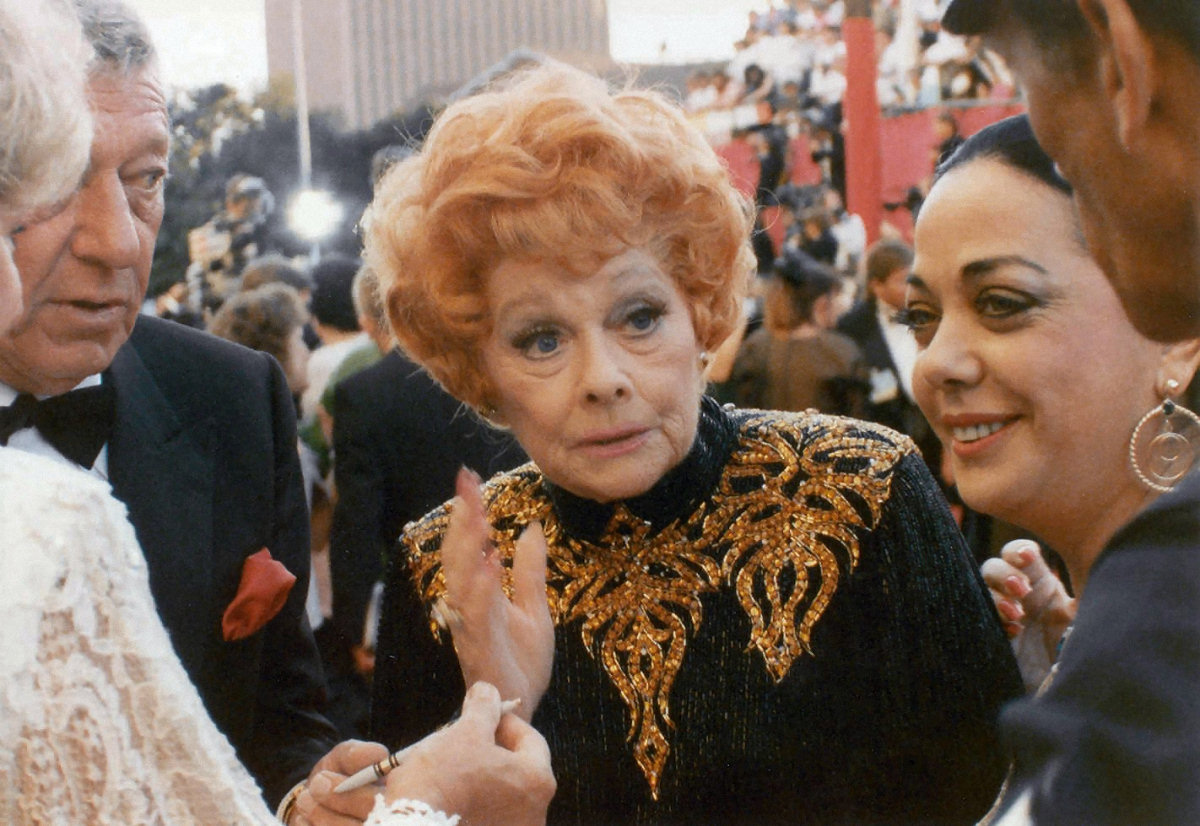 Actress Lucille Ball before her final public appearance, with husband Gary Morton at left. Photo taken at the 61st Academy Awards.